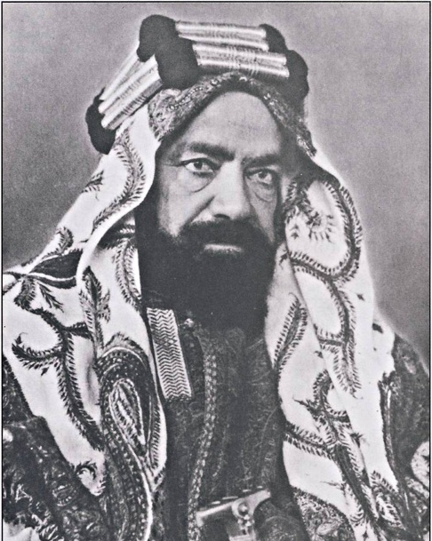 A photograph of Hamad bin Isa Al Khalifa (1872–1942), the Hakim of Bahrain from 1923-1942